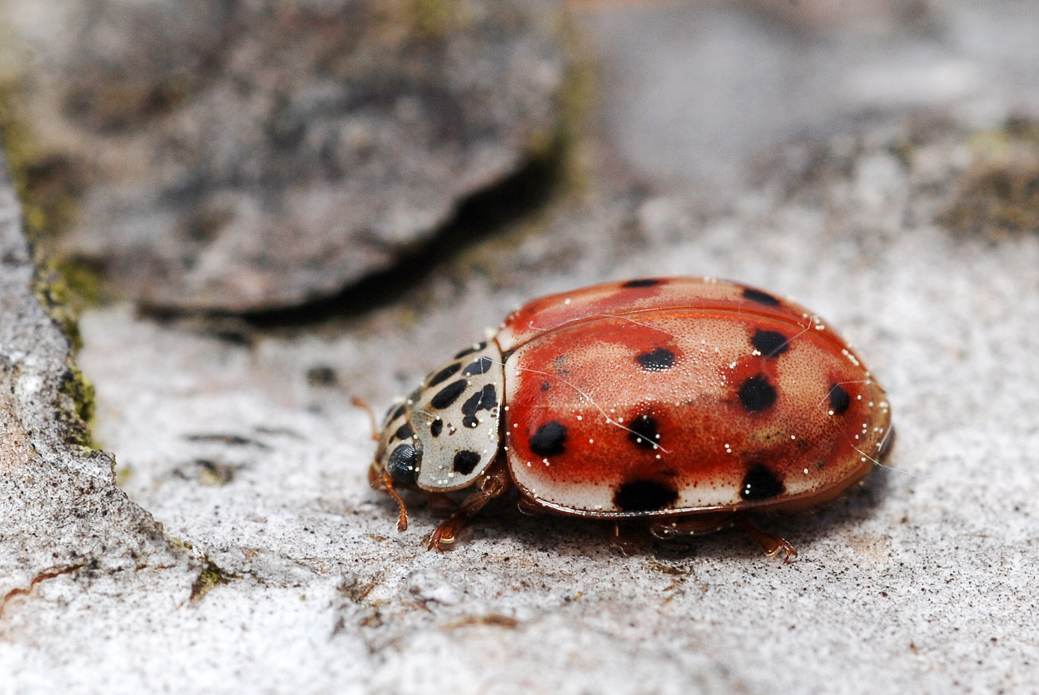 A common European ladybird living exclusively on pine trees